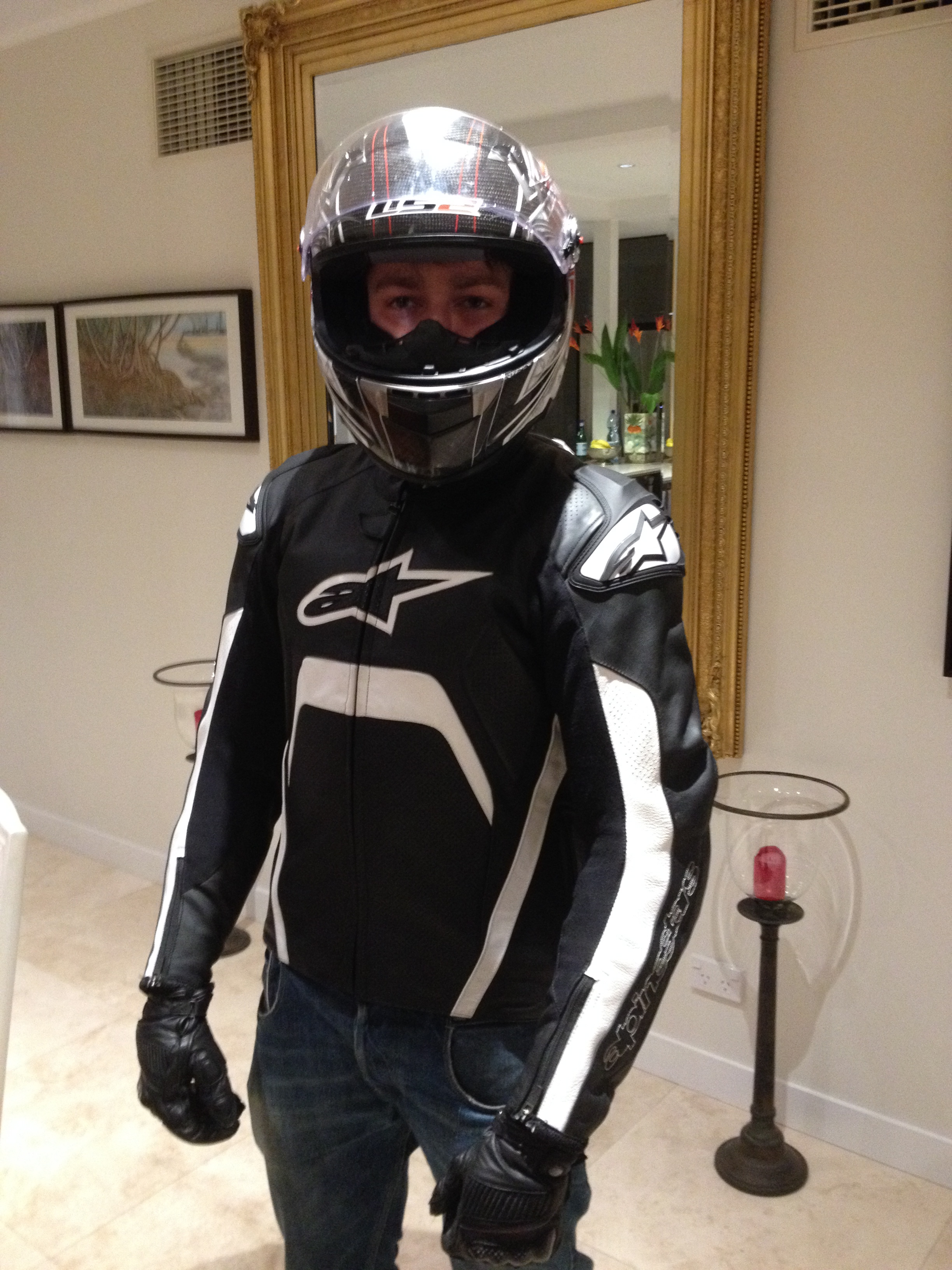 Motorcyclist in protective clothing and helmet